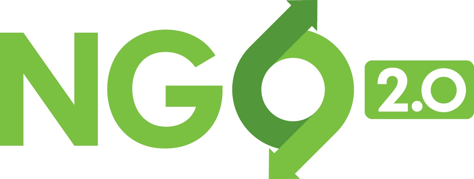 NGO2.0 LOGO